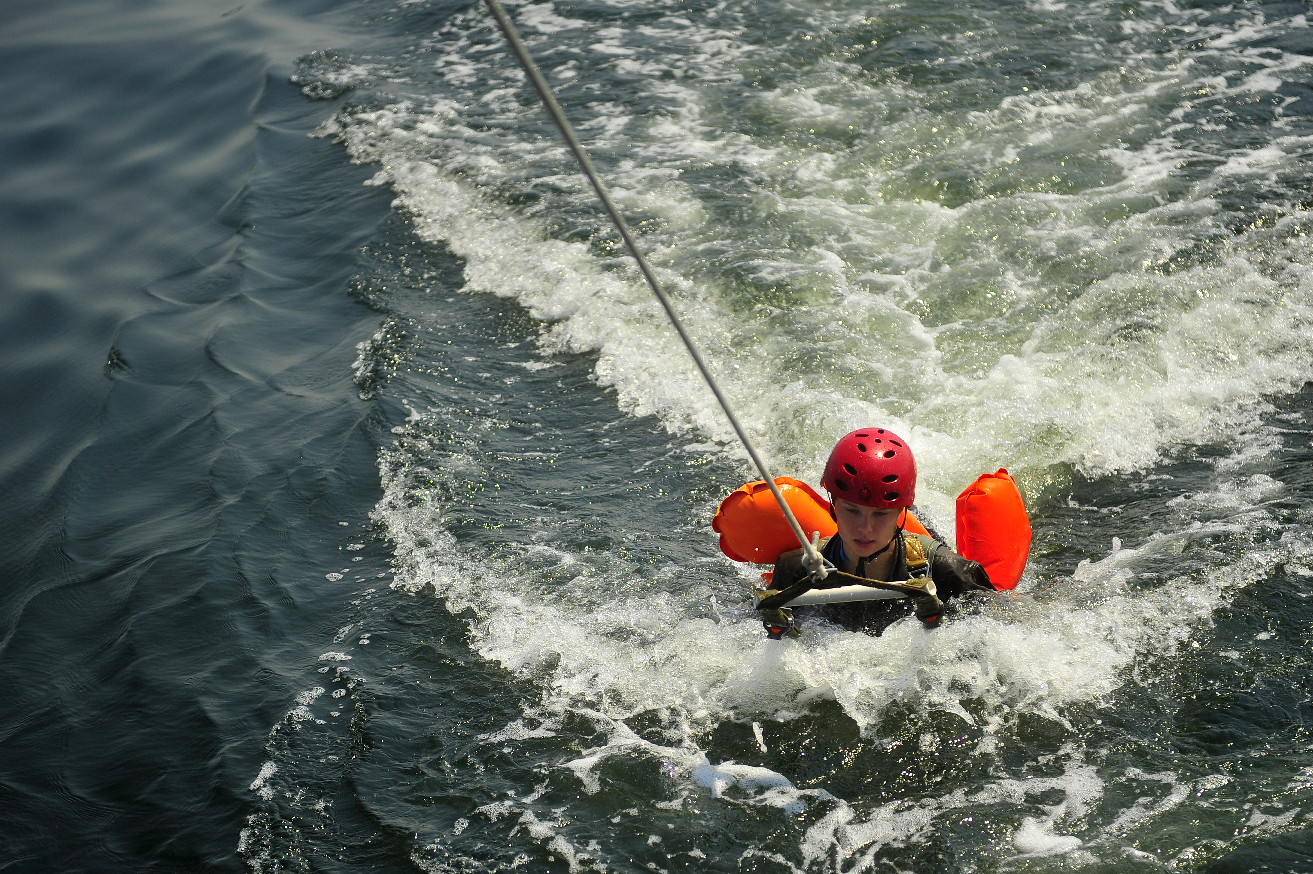 U.S. Air Force Airman 1st Class Amanda Teague, a loadmaster pipeline student, is dragged by a training boat after being dropped into the ocean during the Water Survival Course at Naval Air Station Pensacola, Fla., Sept. 13, 2011. The three-day course consists of classroom academics, zipline and canopy training at a dock near the training facility, and open ocean drag and drop, parasailing, and raft training. The mission of the USAF Water Survival instructors is "to prepare aircrew through realistic training to survive a bailout or ejection at sea." (Photo by Staff Sgt. Jonathan Lovelady)